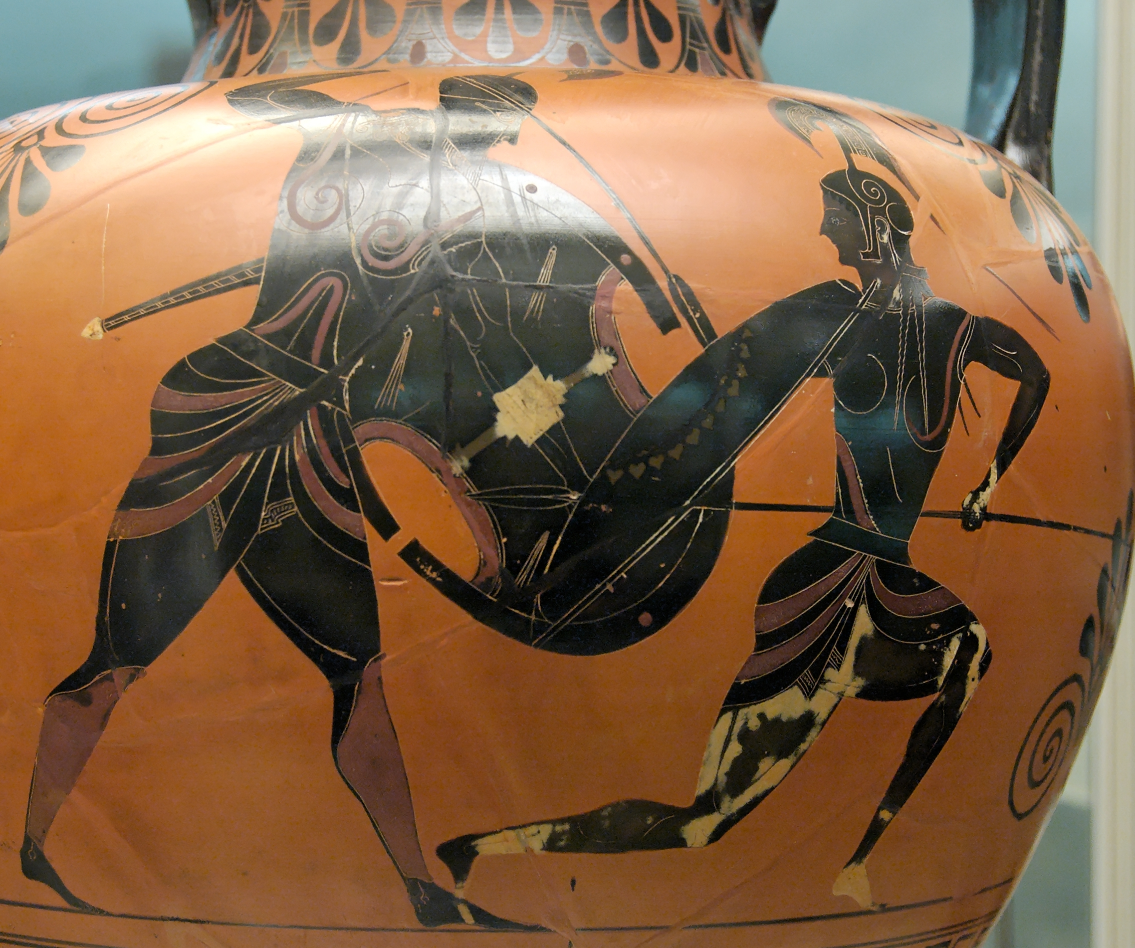 Achilles (left) and Penthesileia (right). Attic black-figured amphora,.